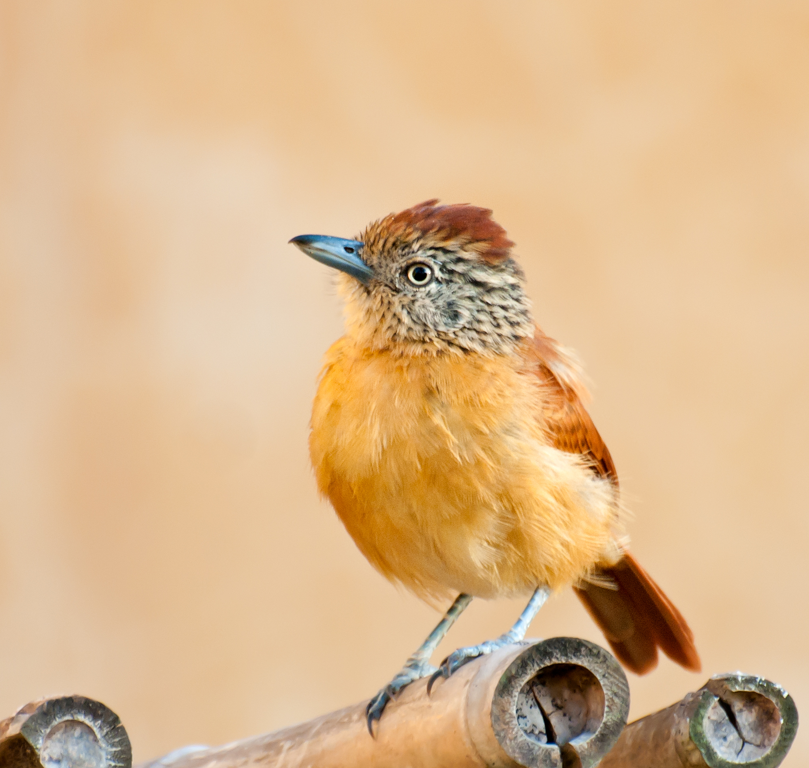 A female Barred Antshrike in Piraju, São Paulo, Brazil.